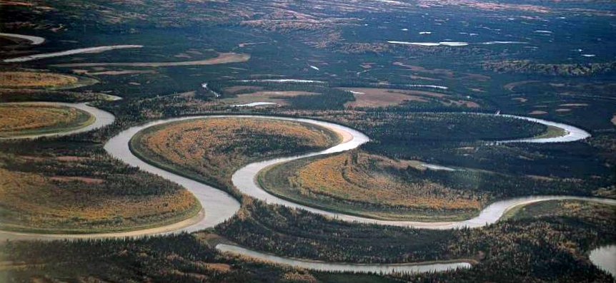 Meanders of the Nowitna River, Alaska